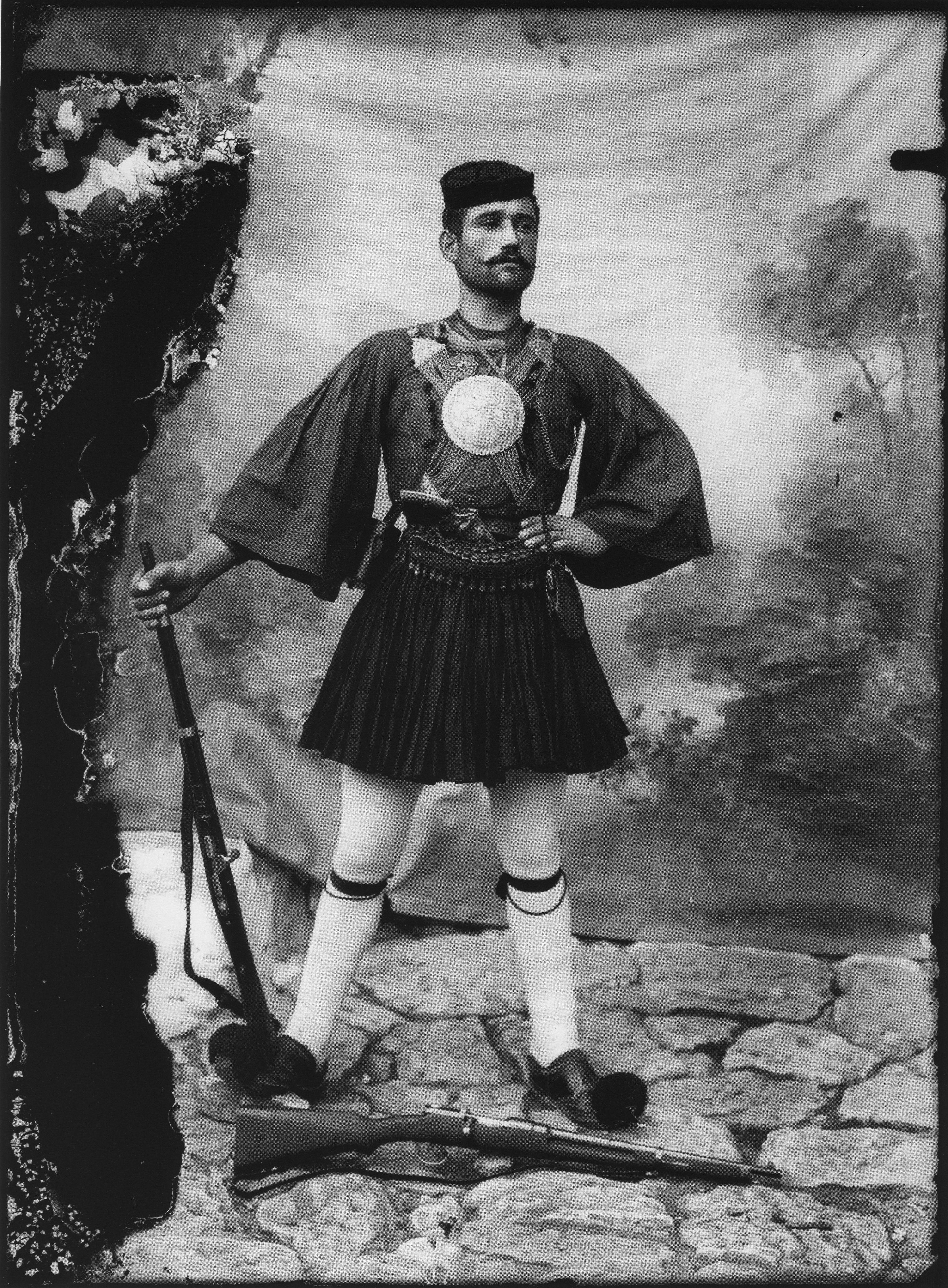 Georgios Tsirsiotis, Greek guerilla fighter from the town of Siatista.